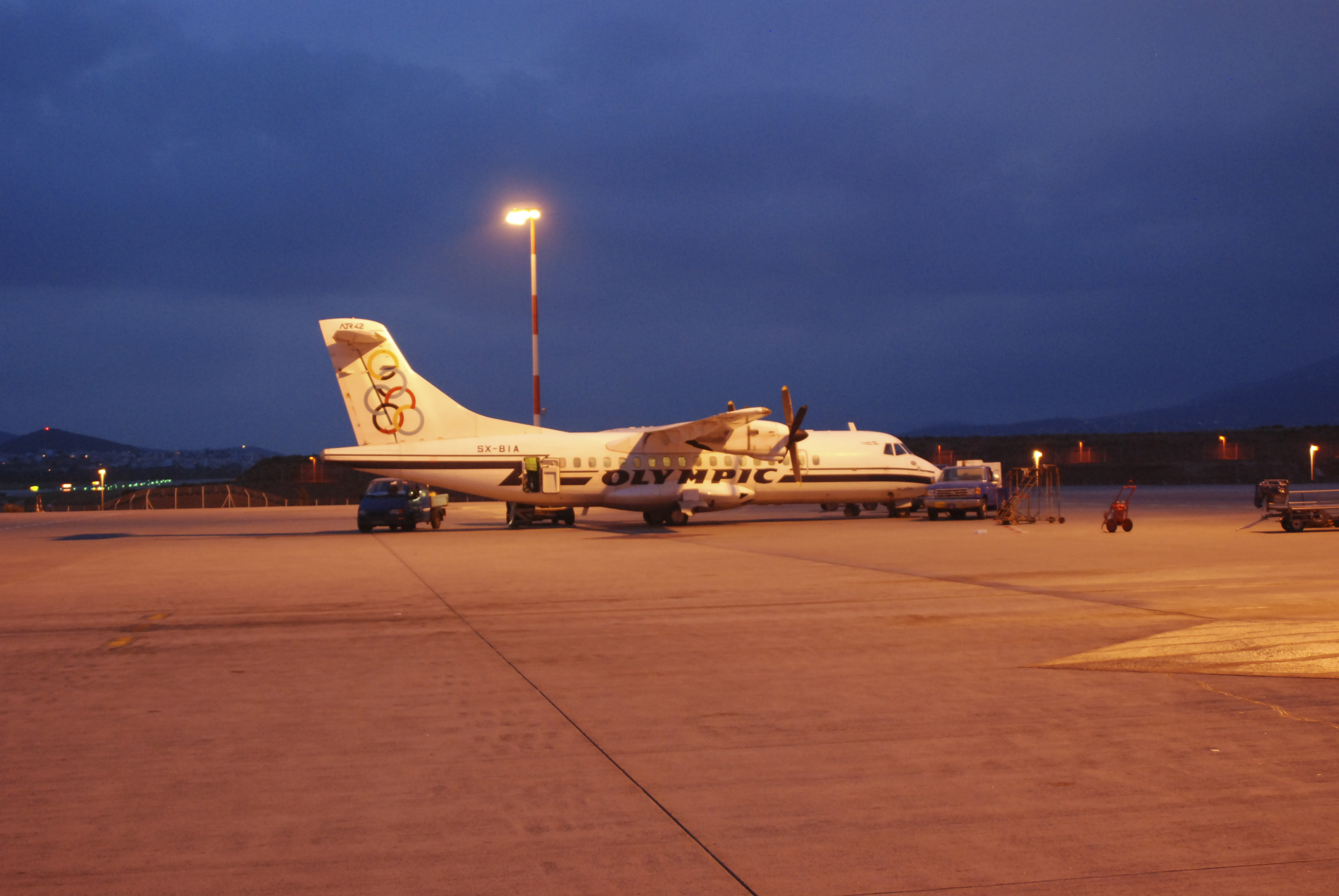 An Olympics Airways ATR-42 at Athens International Airport at night